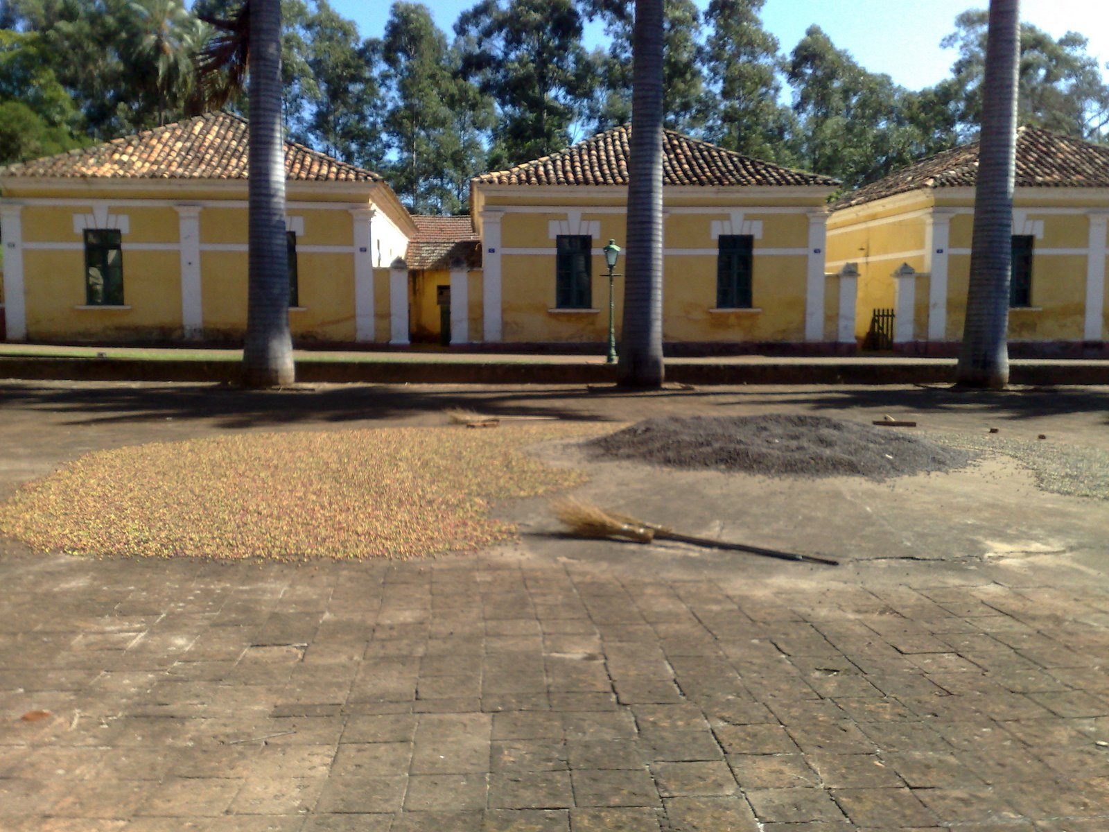 Beautiful coffee farm where some Brazilian soap operas were filmed. All real and antique. Amazing house.